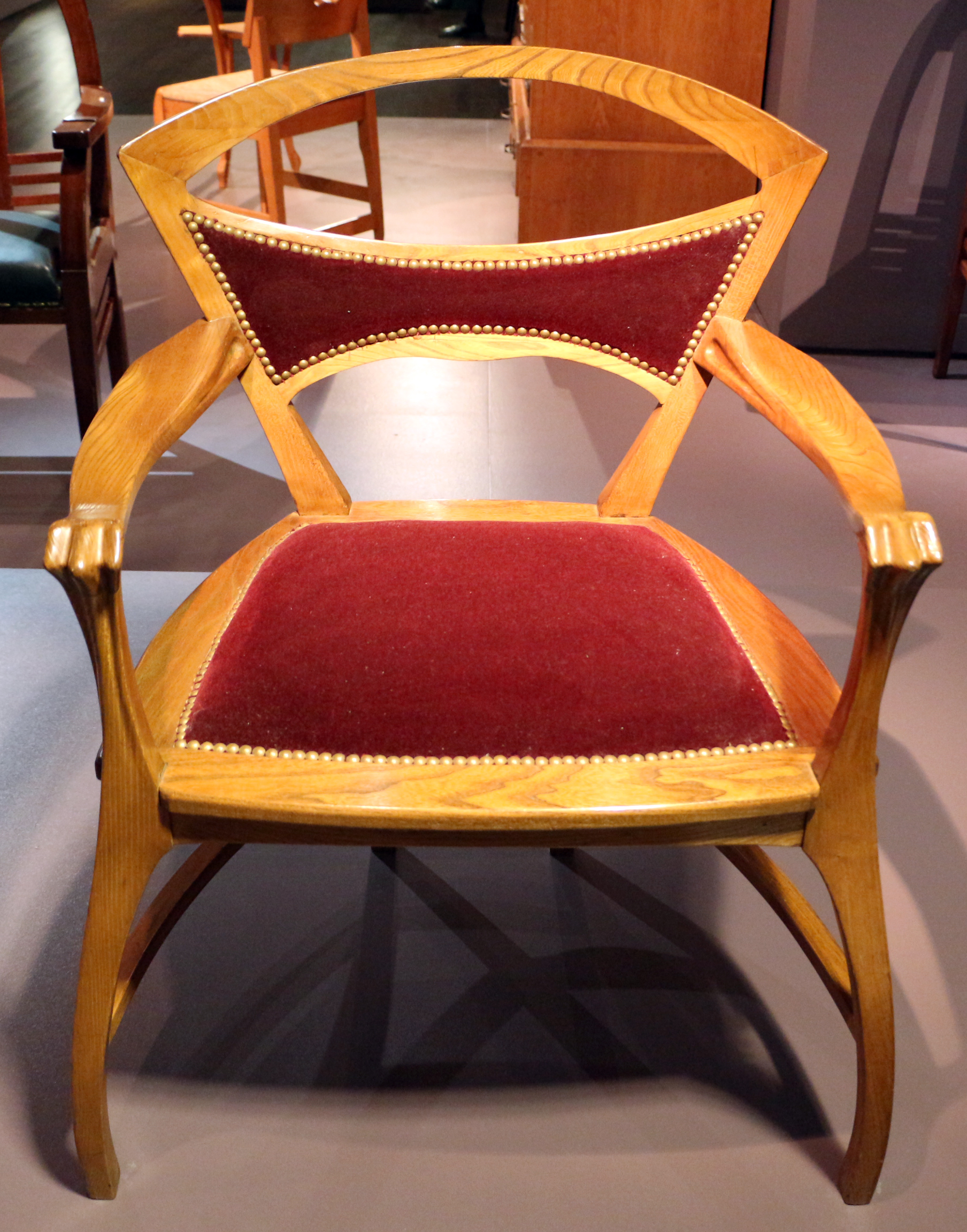 Decorative arts in the Musée d'Orsay